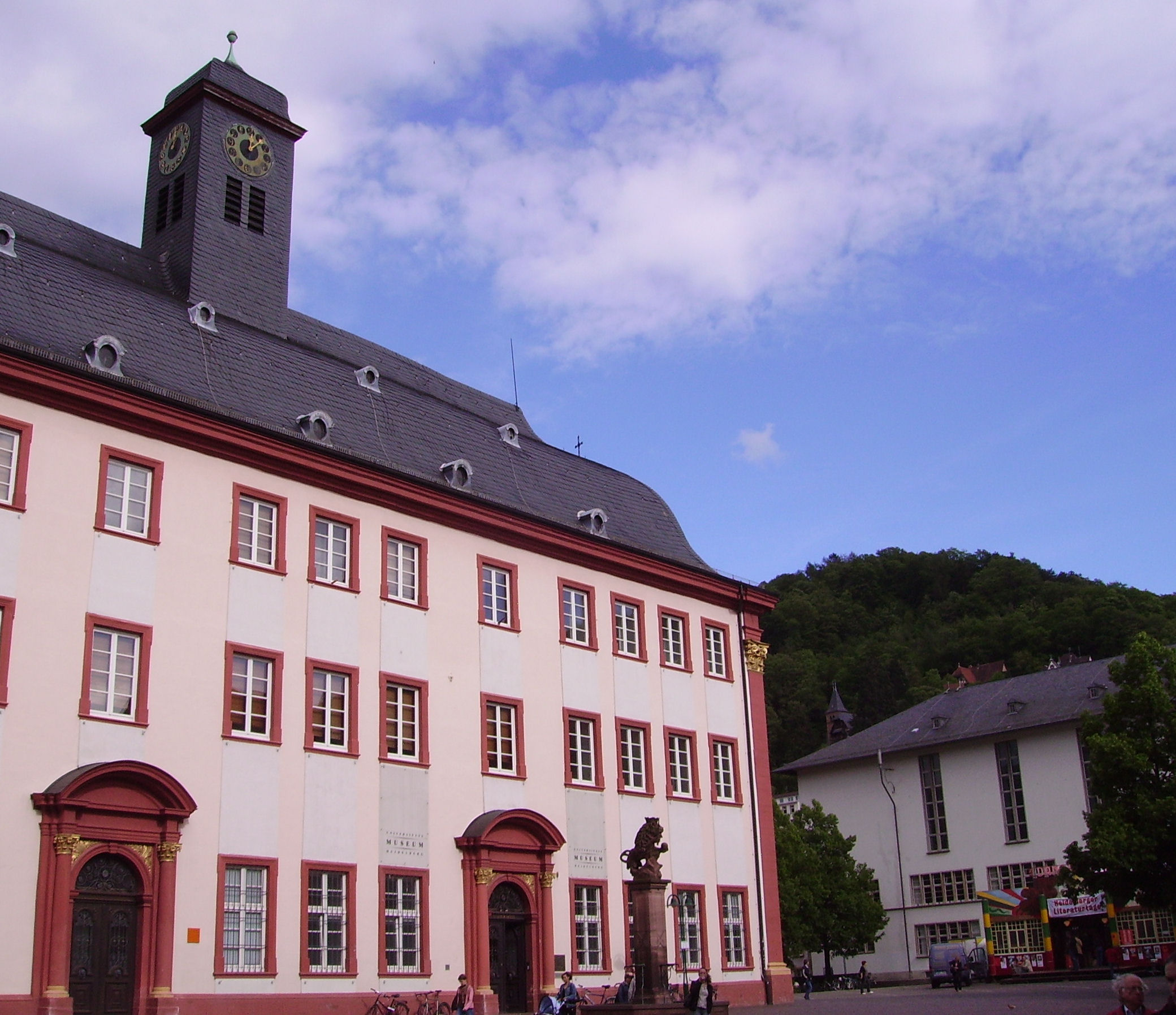 Old and New University of Heidelberg - views of Heidelberg, Germany